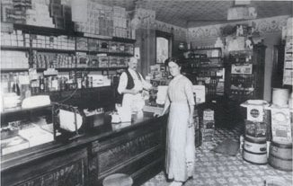 John Brown in his Richmond Hill grochery store